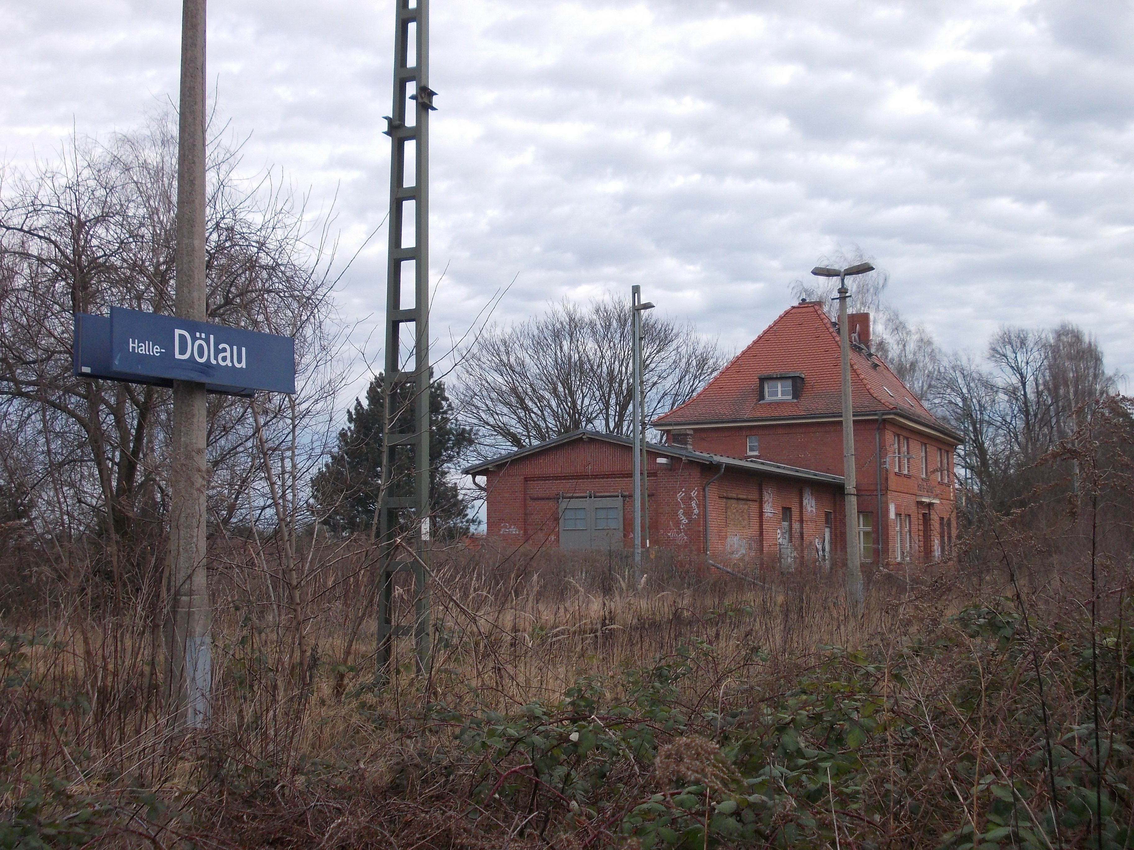 Former Halle-Dölau train station (Halle/Saale, Saxony-Anhalt)